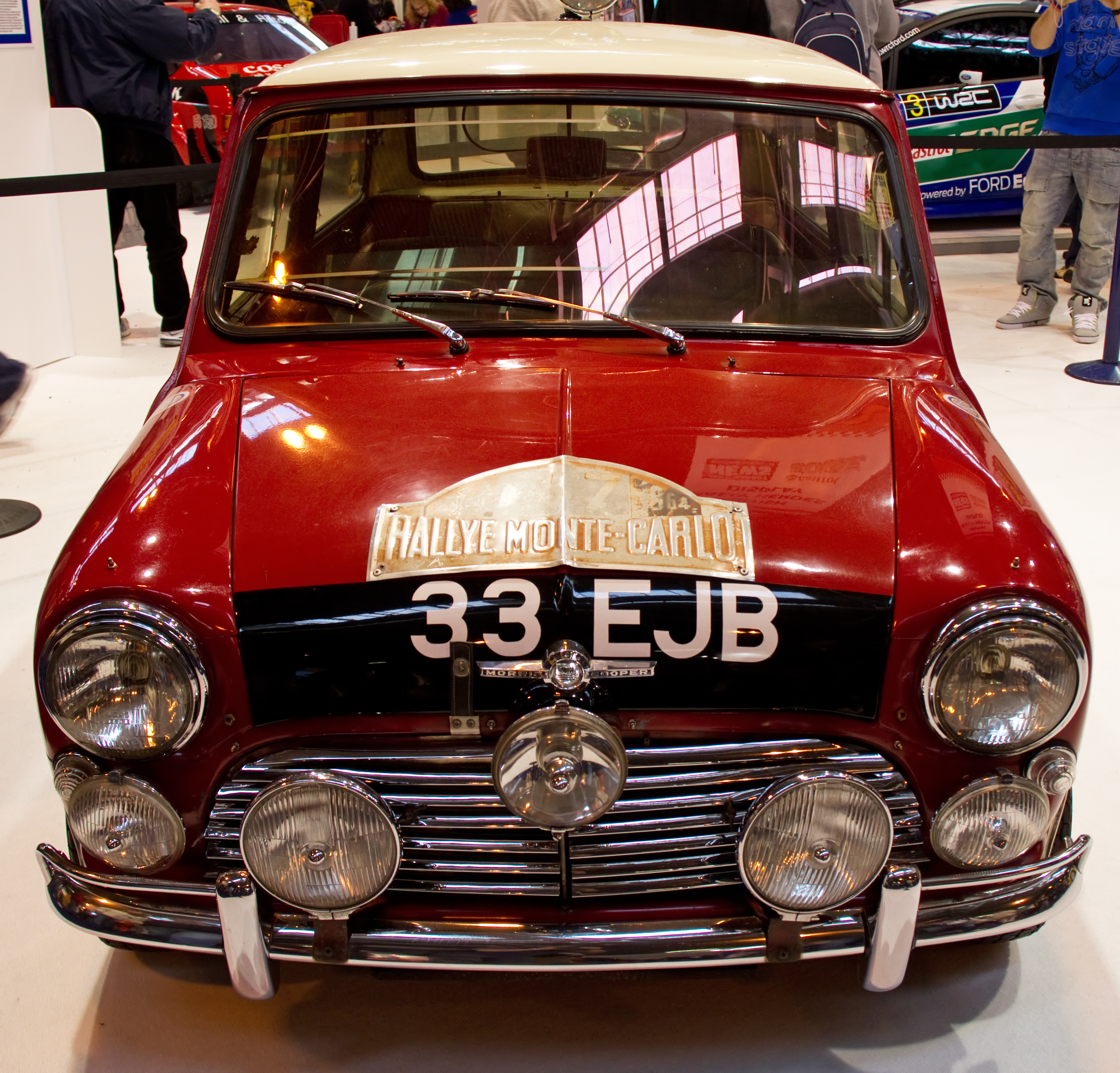 Paddy Hopkirk & Henry Liddon's 1964 Monte Carlo Rally Winning Cooper